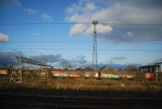 Tower light over the railway sidings